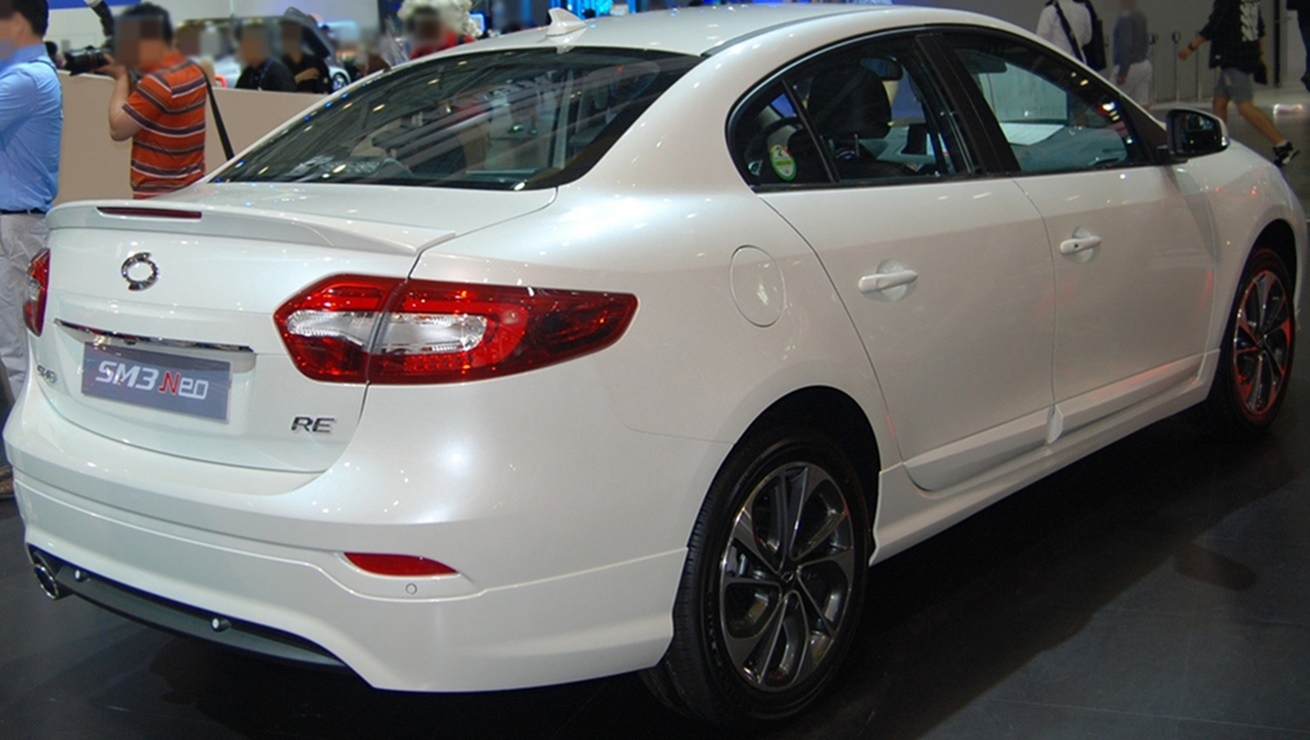 Renault Samsung SM3 Neo